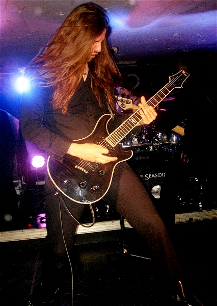 Oliver Palotai live with Sons Of Seasons in Karlsruhe 2009